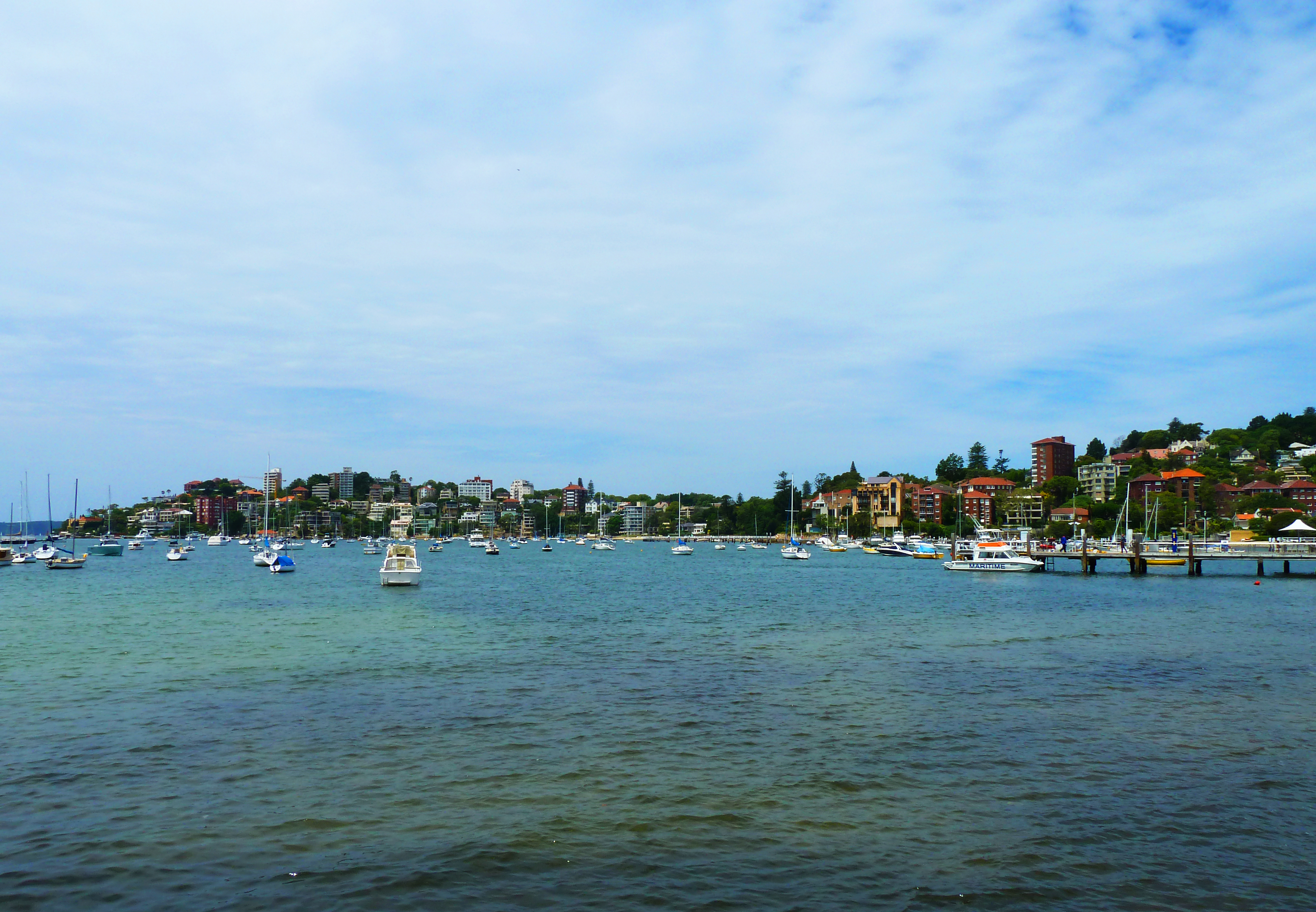 Sydney Harbour, from Steyne Park, Double Bay, New South Wales, Australia.